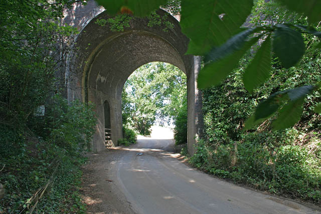 Railway bridge over Whalebone Lane, Little Ponton.